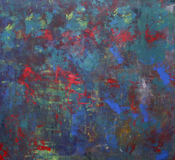 Painting "In the Blue Light" by British artist Winston Branch